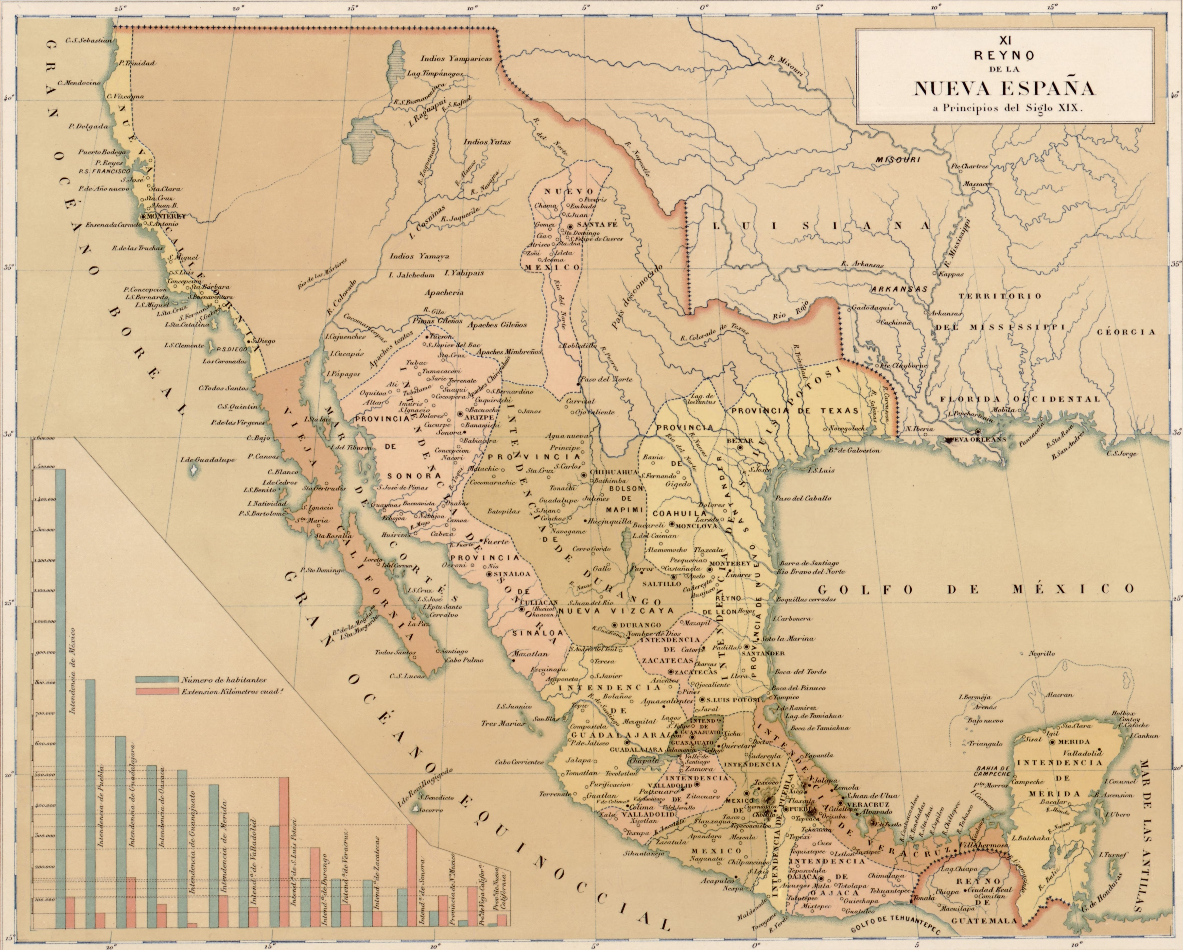 Map of the Viceroyalty of New Spain in the 19th century.